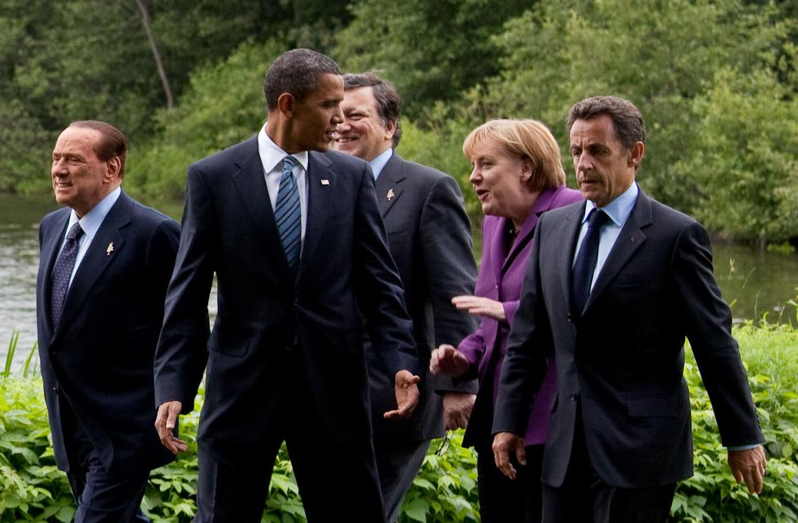 Silvio Berlusconi, Prime Minister, Barack Obama, President, José Manuel Barroso, President of the European Commission, Angela Merkel, Chancellor, and Nicolas Sarkozy, President, walked at the 36th G8 summit in Muskoka District Municipality, Ontario Province on June 25, 2010.